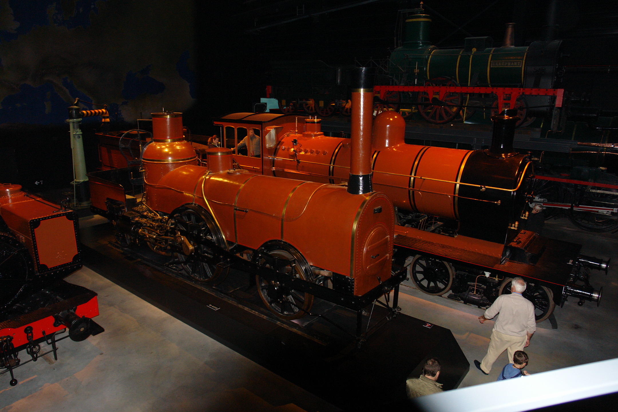 Train World is a railway museum in Brussels and the official museum of the National Railway Company of Belgium.